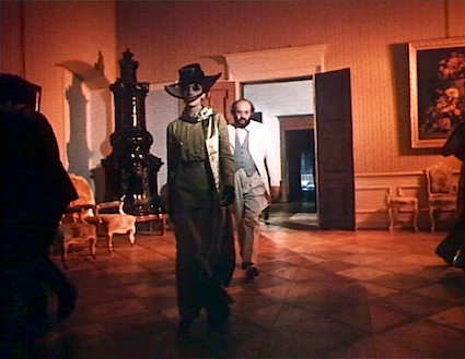 Psyche and Professor Eberhard